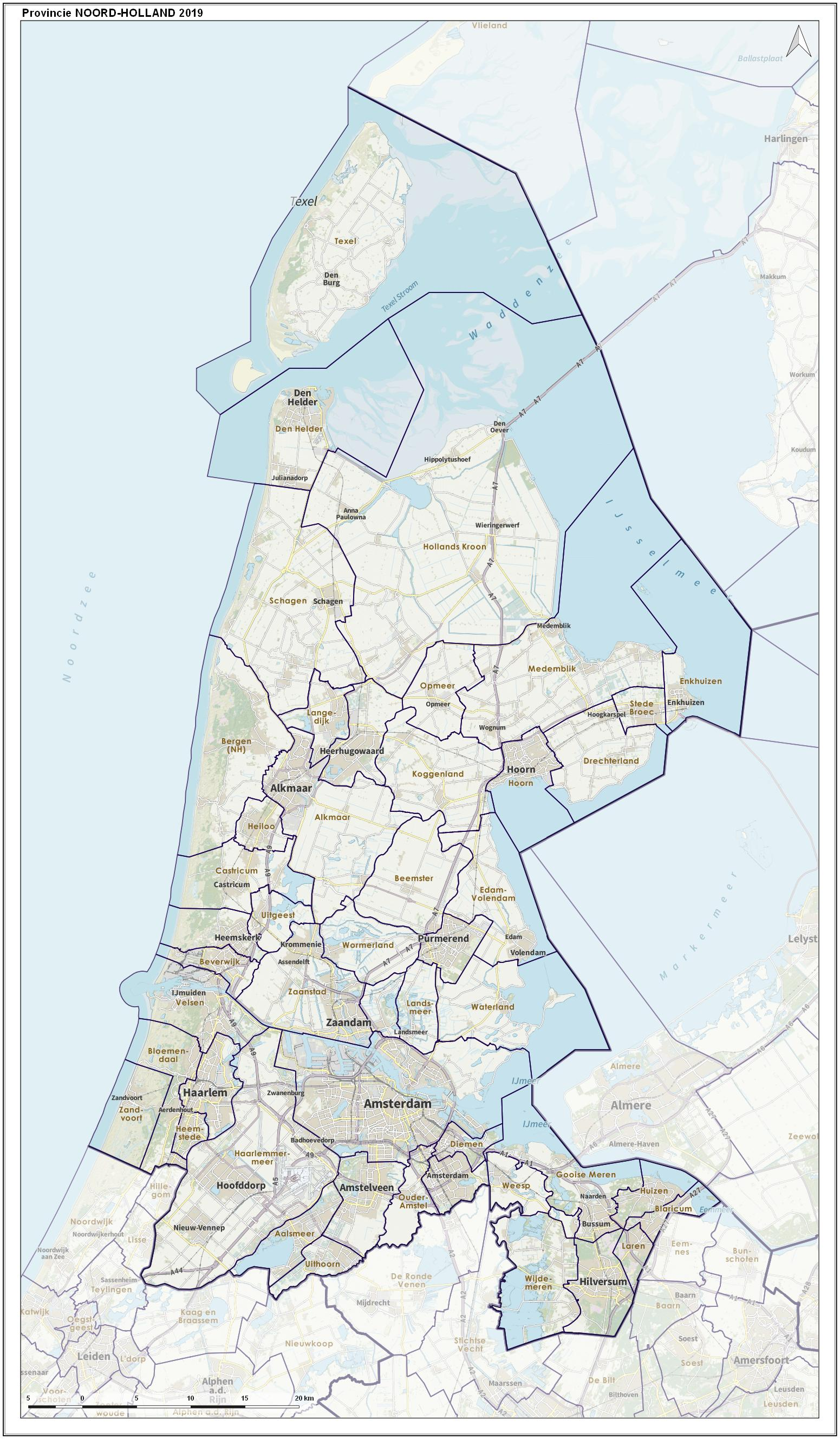 Overview map of the province, including municipal borders, largest places and major infrastructure.